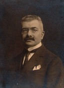 Portrait of Adolphe Boschot